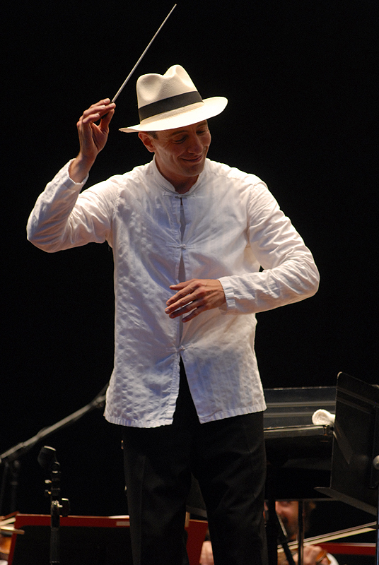 Rossen Milanov conducting the Philadelphia Orchestra in Clark Park